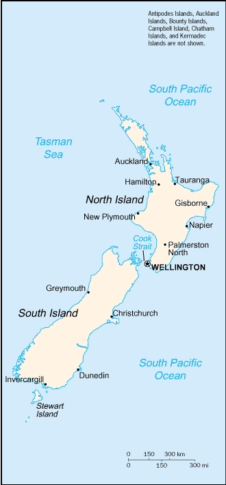 Map of New Zealand, showing major cities.